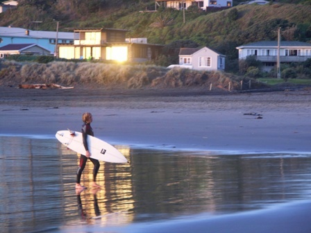 Piha 4 - photo taken and uploaded by Paul Moss, Photographer, Artist, Paul Moss Photographer Artist NZ